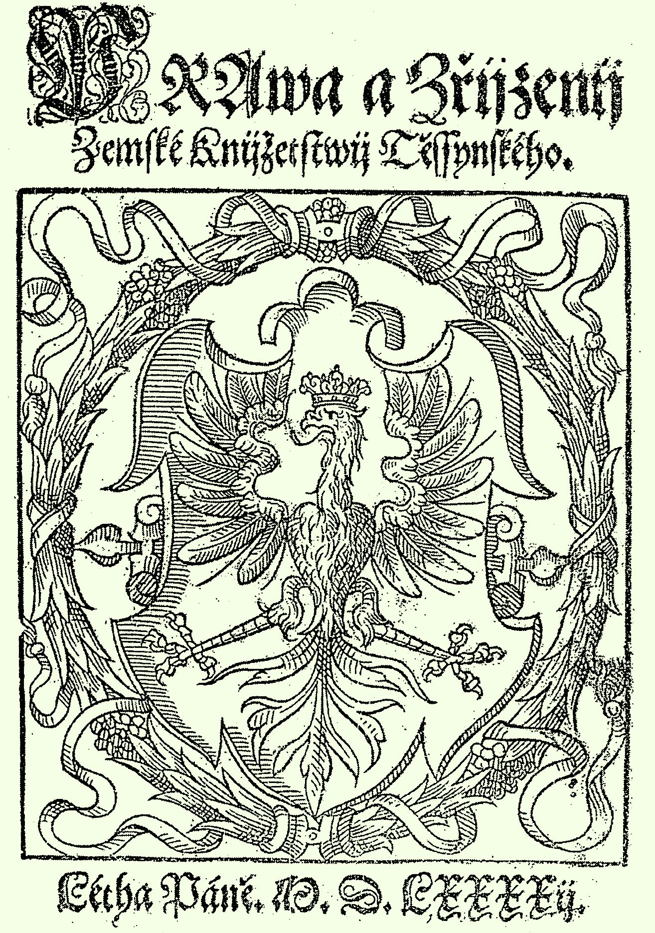 Title page of the Constitution of the Duchy of Teschen, issued by Wenceslaus III Adam, Duke of Teschen, in the year 1573. The constitution was issued in the Czech Language, being the official language of the Duchy at that time. This particular edition of the Constitution was published in the year 1592.